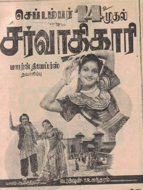 Poster for the 1951 South Indian Tamil film Sarvadthikari